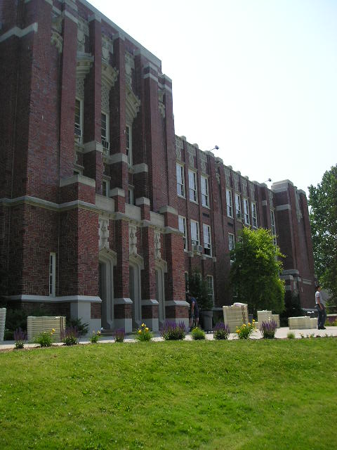 Oyster Bay High School in Oyster Bay, NY. This photo was taken by Adam Robbins on Sunday, June 26th, 2005 after the Class of 2005's graduation ceremony. It belongs in the article for Oyster Bay High School